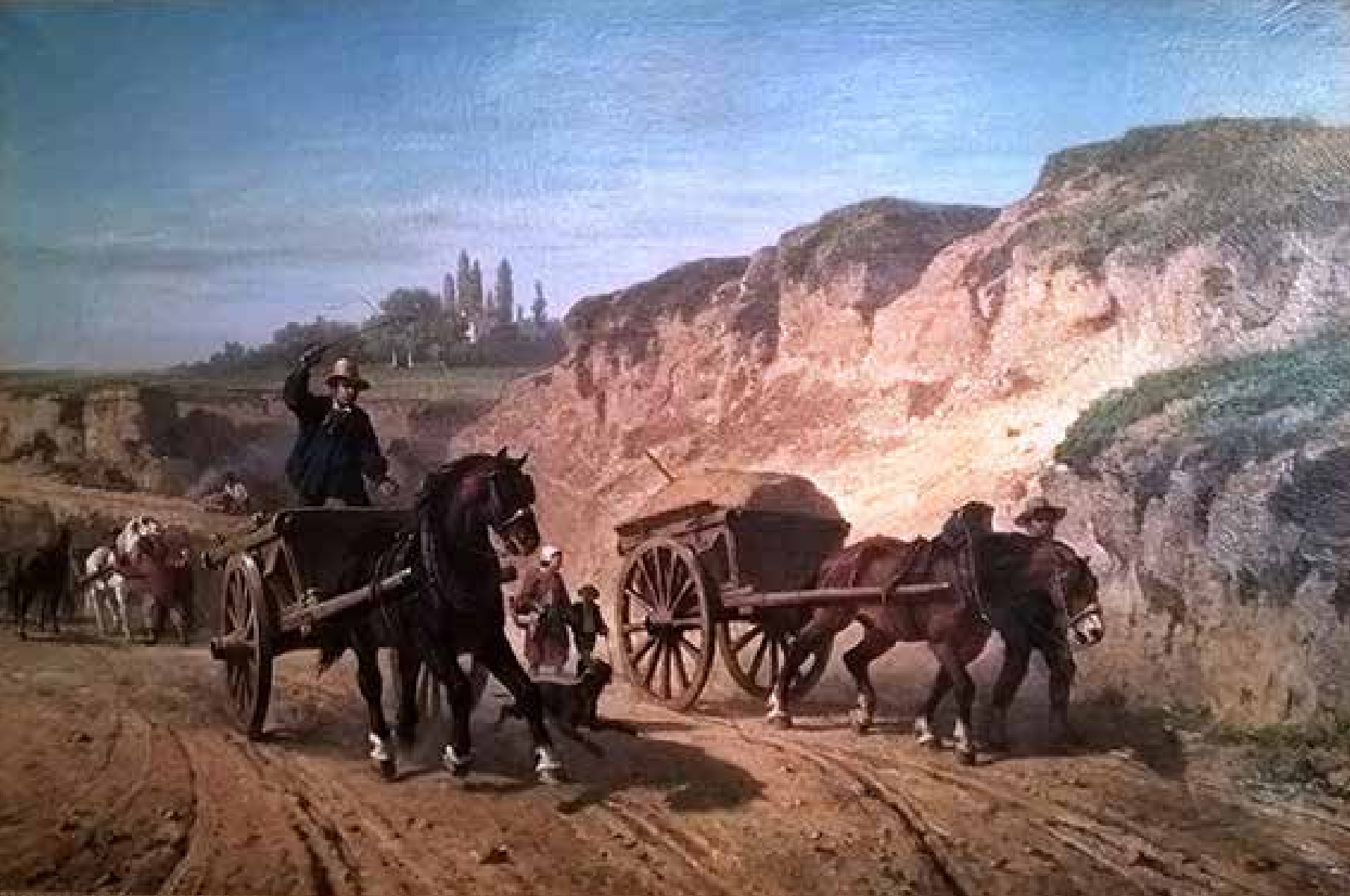 Works for the Avenue Louise in Brussels. Painting by Paul Van de Vin in the Museum of the City of Brussels